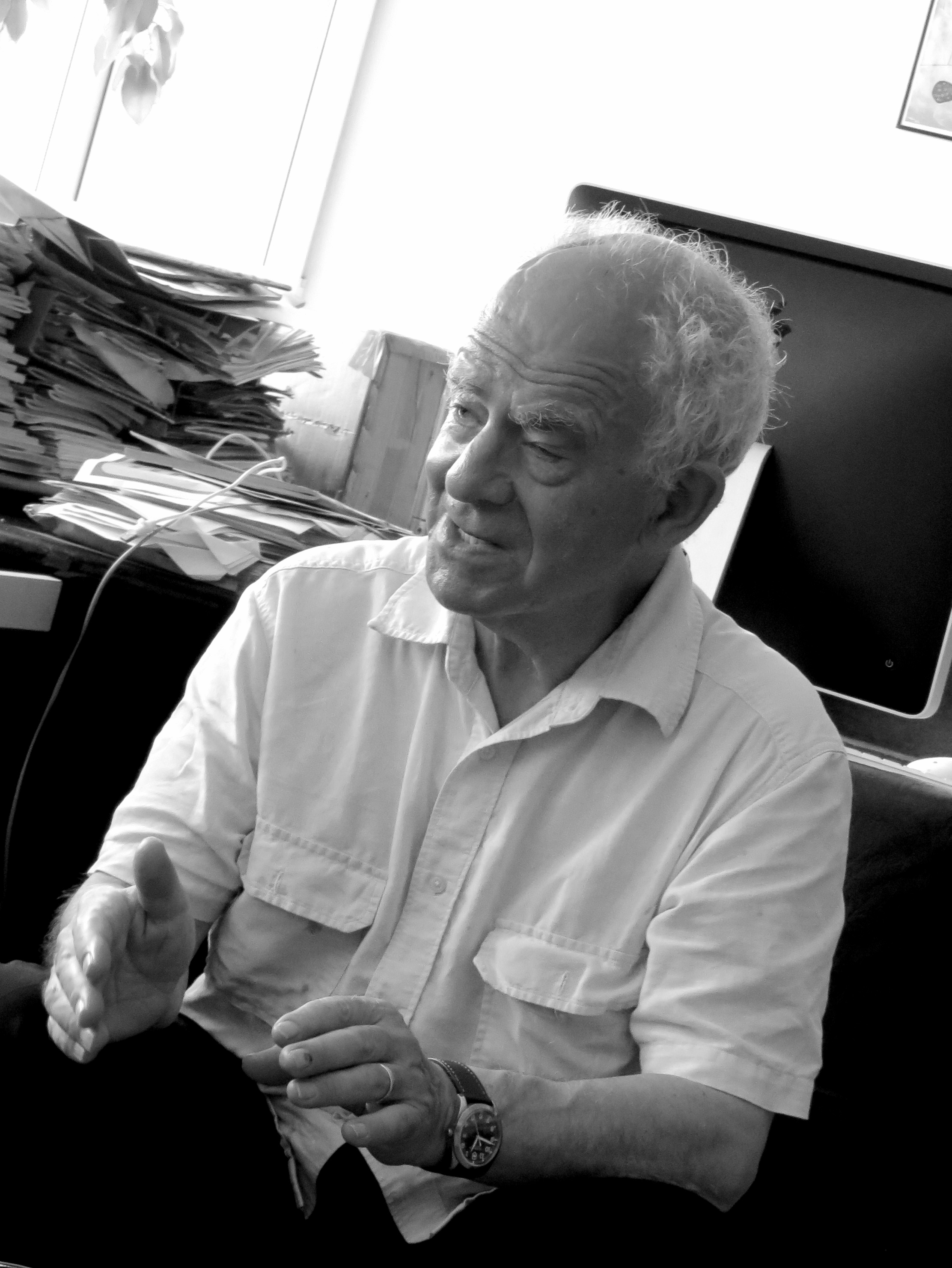 Portrait of the political and social theorist Steven Michael Lukes FBA, during his visit to Birikim magazine in 07.15.14 for an interview.